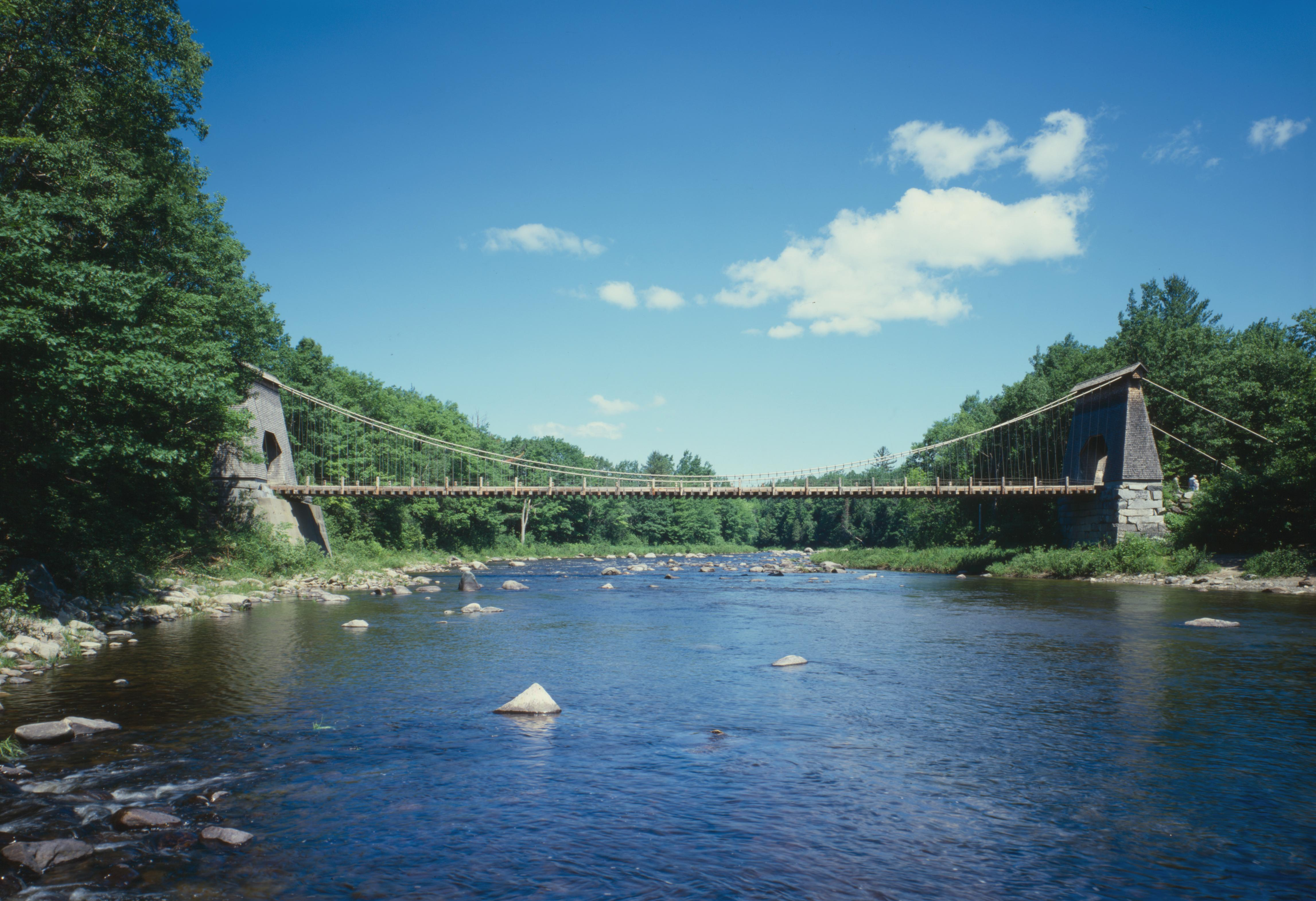 Southern side of the New Portland Wire Bridge, which carries Wire Bridge Road over the Carrabassett River in the town of New Portland in Somerset County, Maine, United States. An early suspension bridge, it was built circa 1866 and is listed on the National Register of Historic Places.